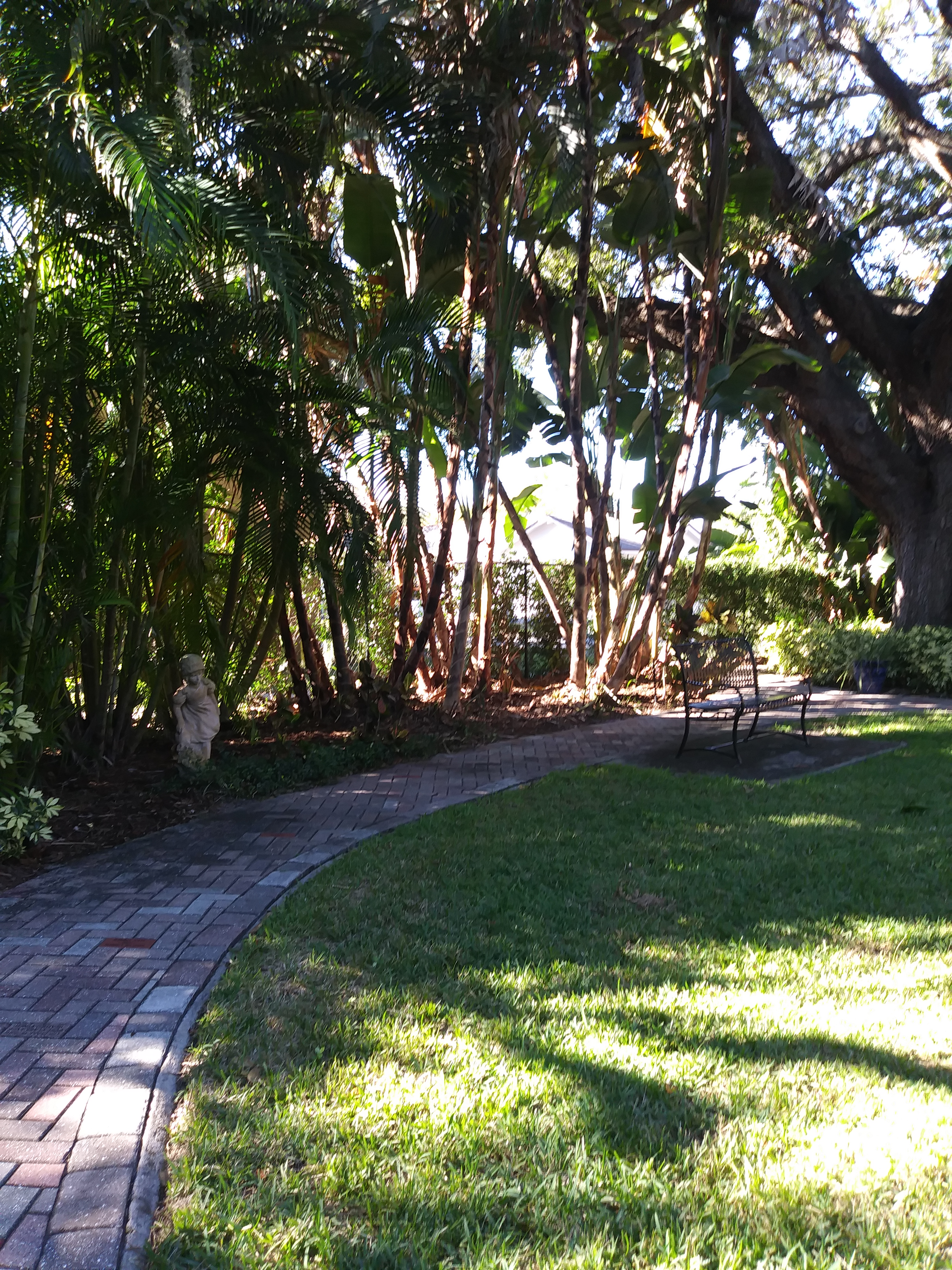 Legacy Garden